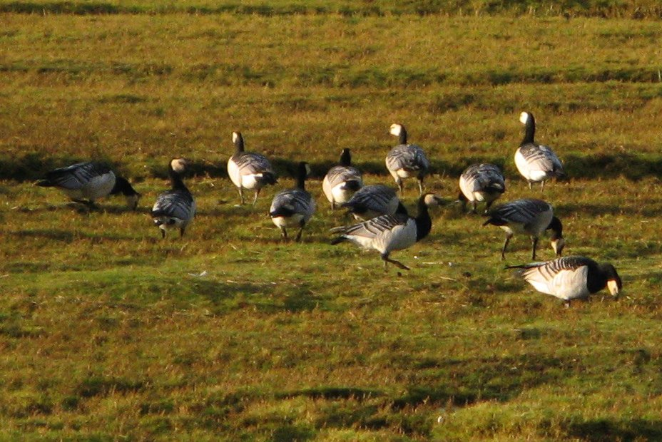 Flock of barnacle geese in autumn at the north sea salt marshes close to the eider estuary, schleswig-holstein, germany